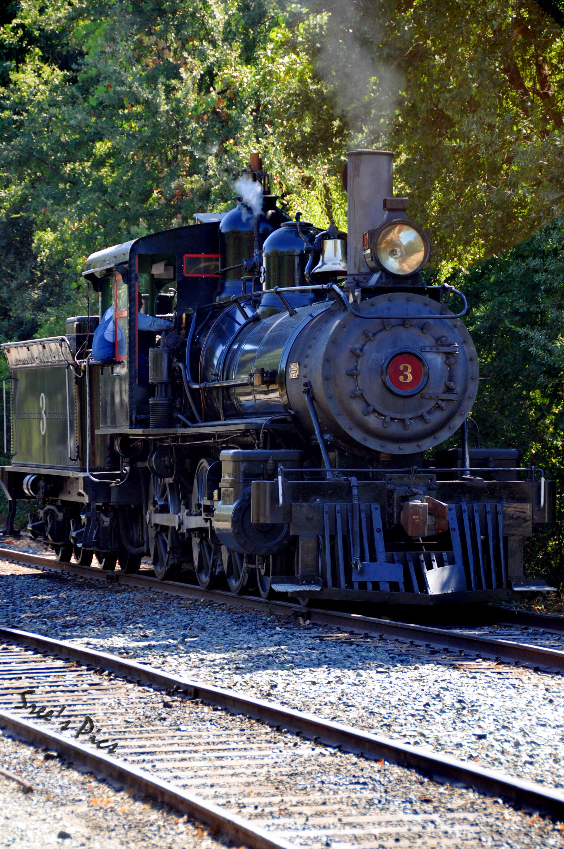 The Historic movie star locomotive - Sierra 3